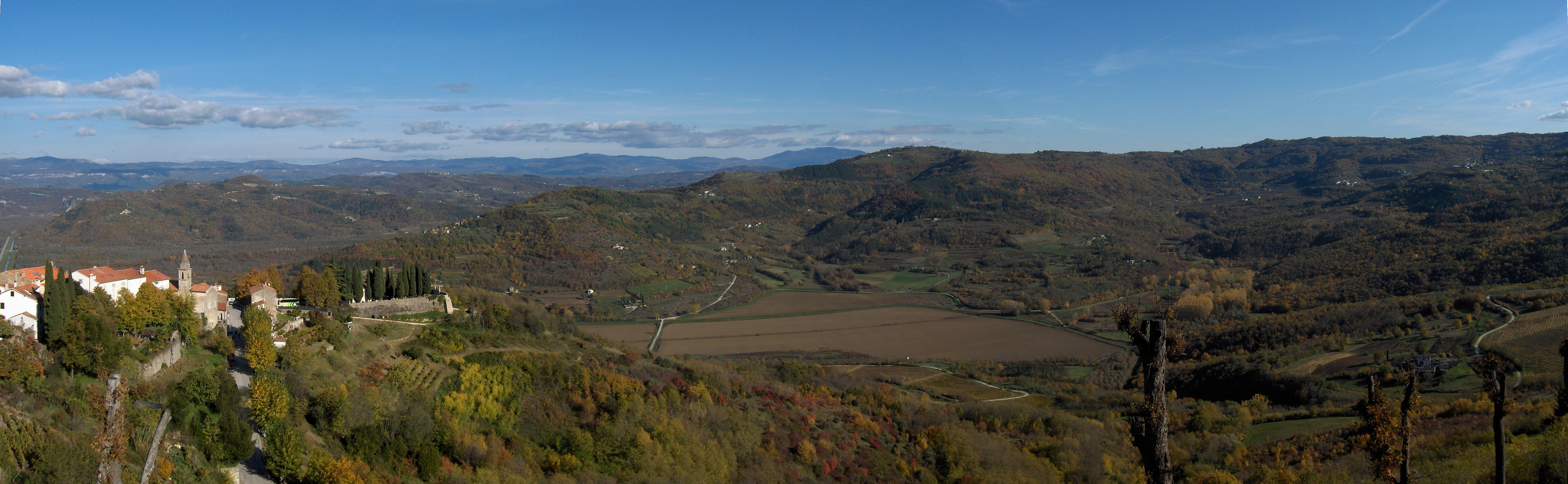 Panoramic view on the surrounding valley seen from Mošćenice